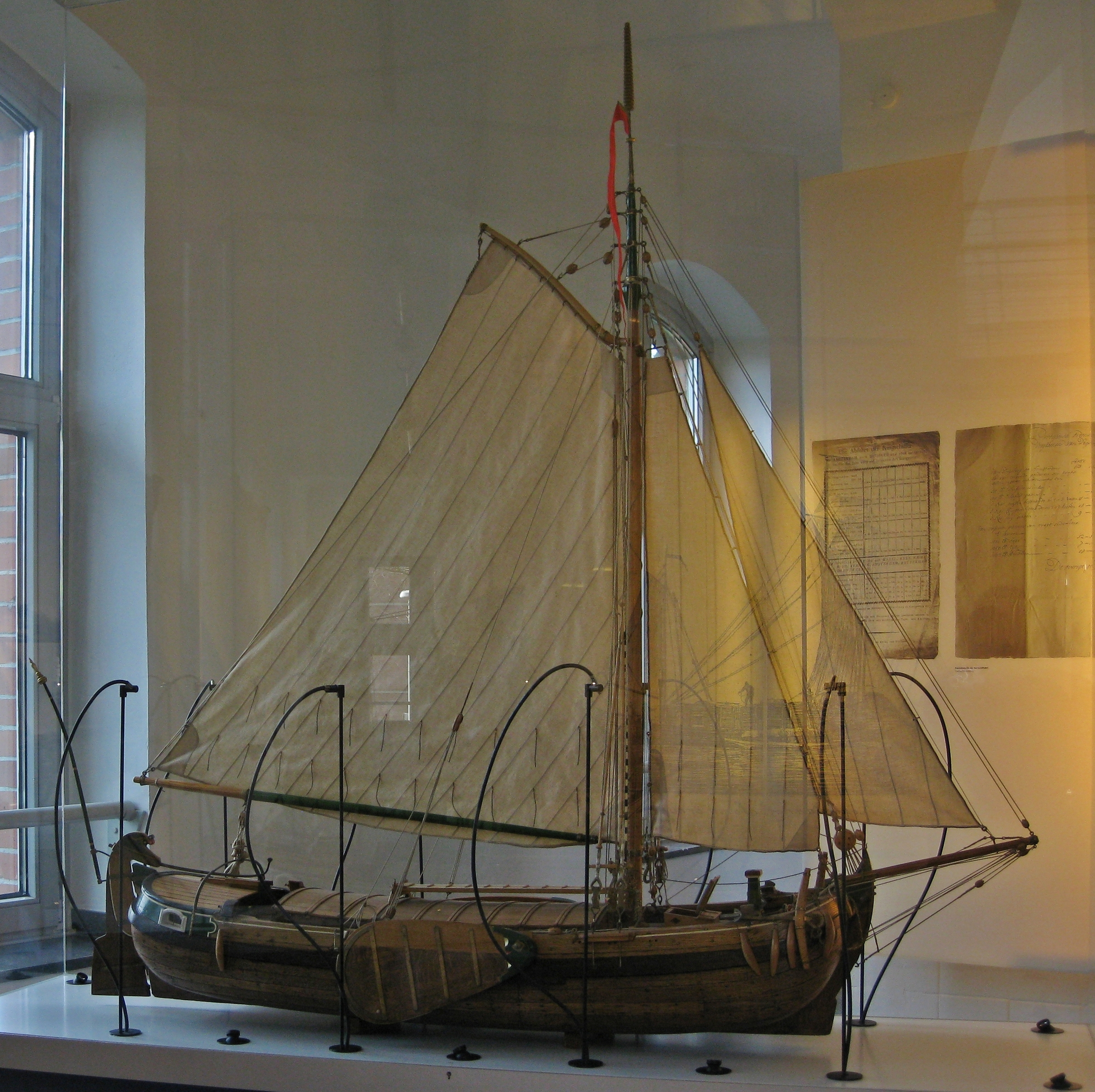 Germany, Duisburg: Museum der Deutschen Binnenschifffahrt/German Inland Waterways Museum: model of a dutch Poon as Börtschiff 19th century in the scale 1:11